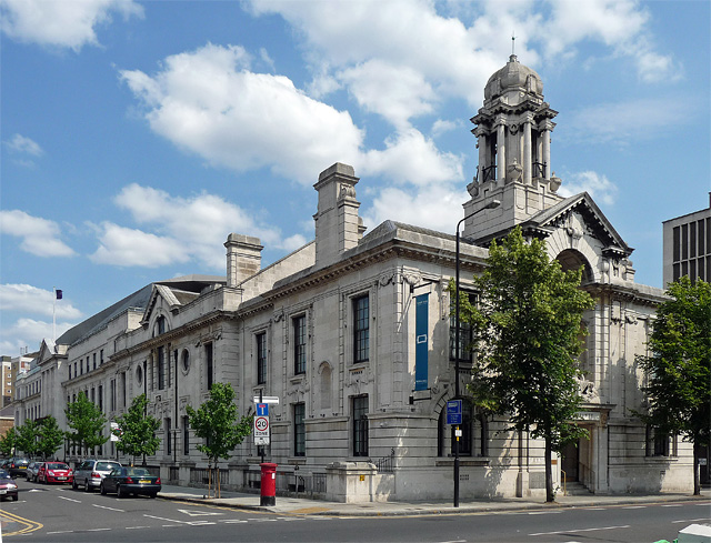 Standard Edwardian Baroque fare, "pompous" Pevsner calls it. Built, as ever, of Portland stone, with open pediments and an octagonal tower with domes and paired columns. The original building for Bethnal Green, by Percy Robinson & W. Alban Jones, 1909-10, presents a very narrow frontage to the main road, but extends further down Patriot Square, even more so as a result of an extension in 1937-39 by E.C.P Monson. Grade II listed. It is now a hotel and flats.